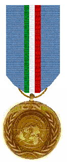 UN Peacekeeping Medal for UNITED NATIONS OPERATION IN CÔTE D'IVOIRE